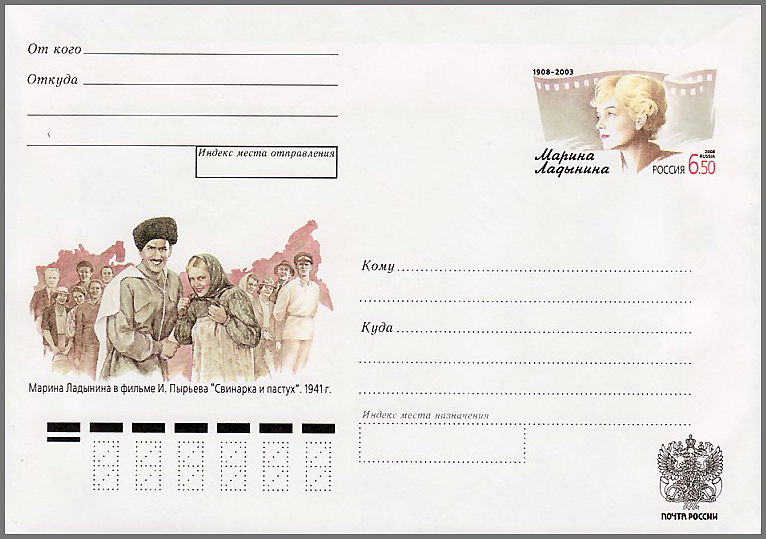 Russia, 2008. Envelope with commemorative stamp (EWCS) № 174. 100th birth anniversary of Marina Ladynina, an actress. Envelope designer B. Ilyukhin.